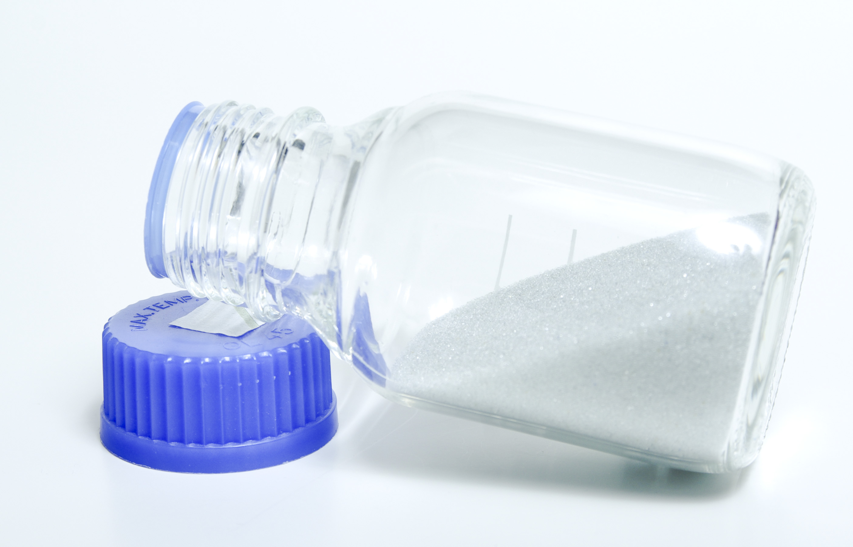 A bottle of glass beads